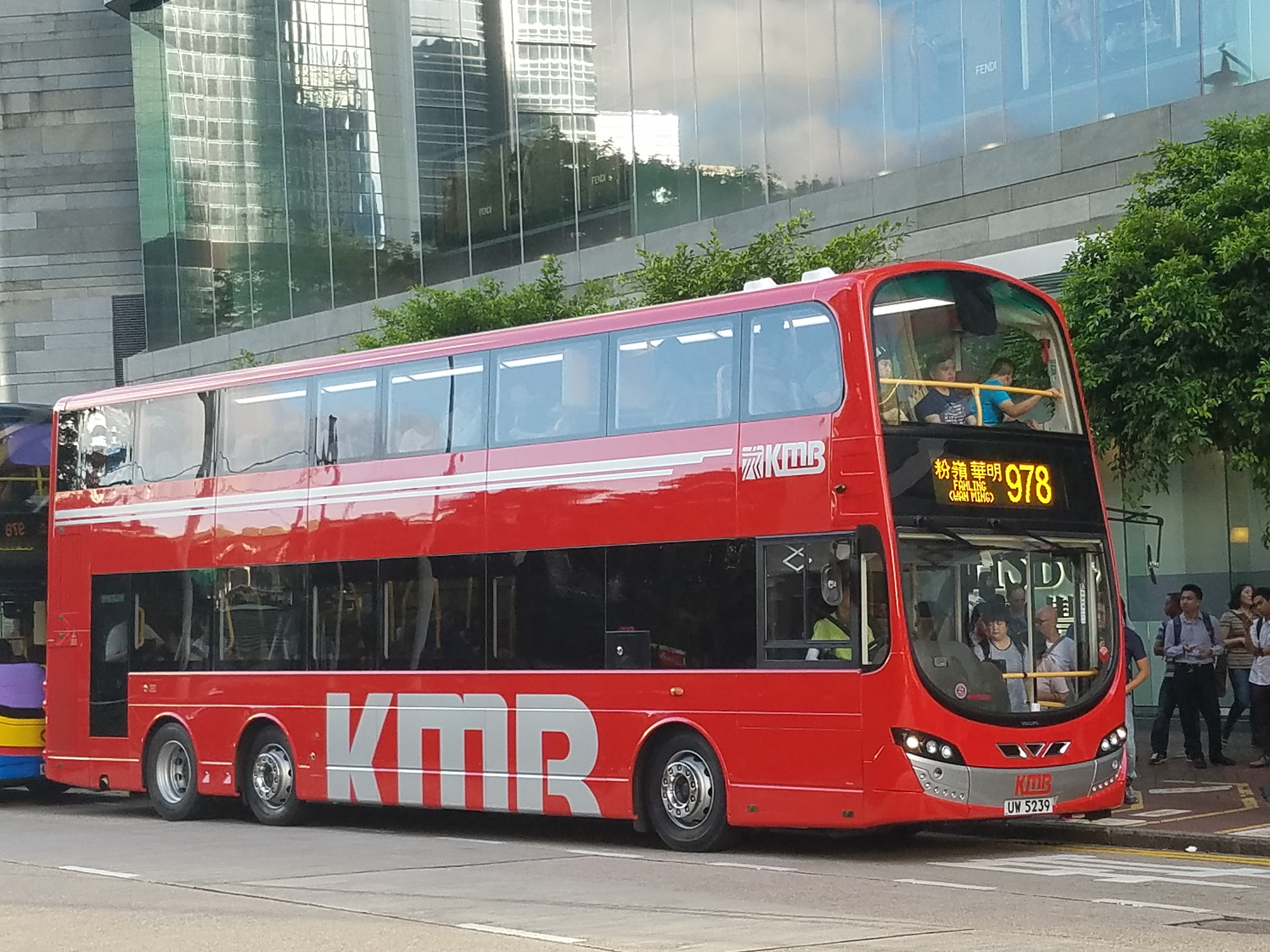 The first KMB buses with "Heartbeat of the City" Livery Volvo B9TL was launched on June 28 2017 with AVBWU567 / UW5239 being scheduled bus of Rt. 978